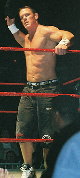 A trademark of Cena to throw his hat into the crowd.